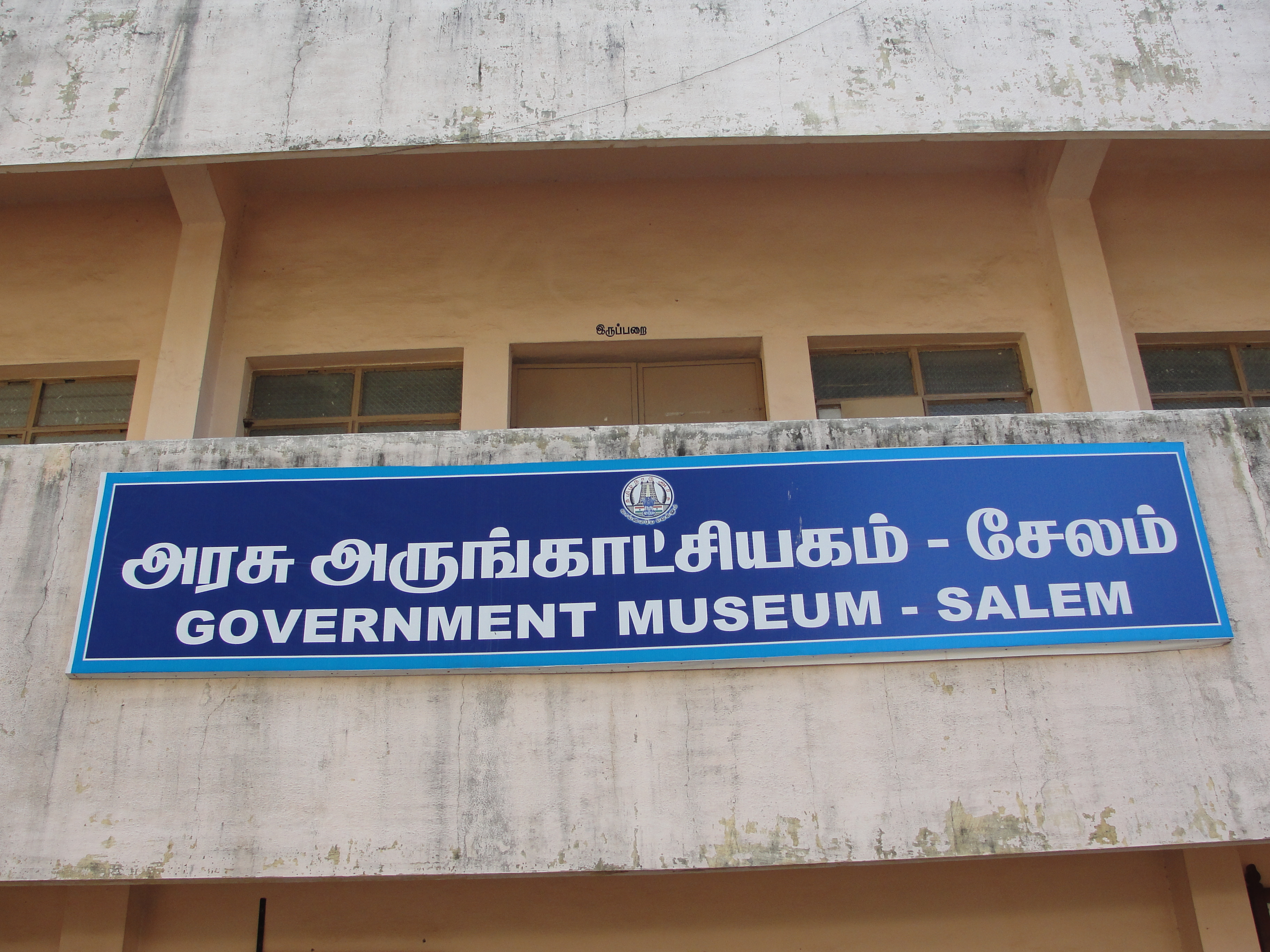 A depiction of signboard of Government Museum in Salem